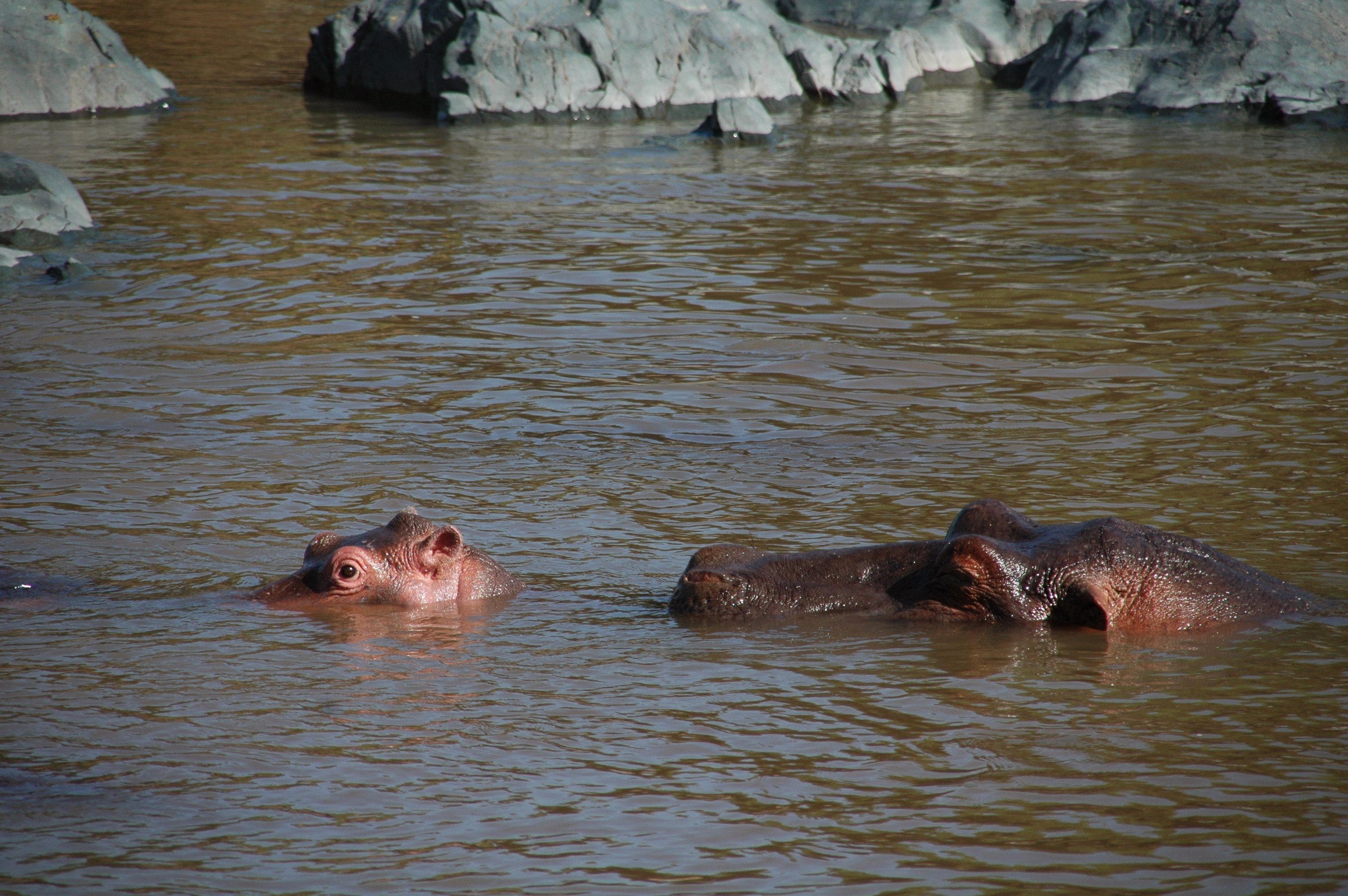 Hippo, mother and son, Serengeti Park, Tanzania